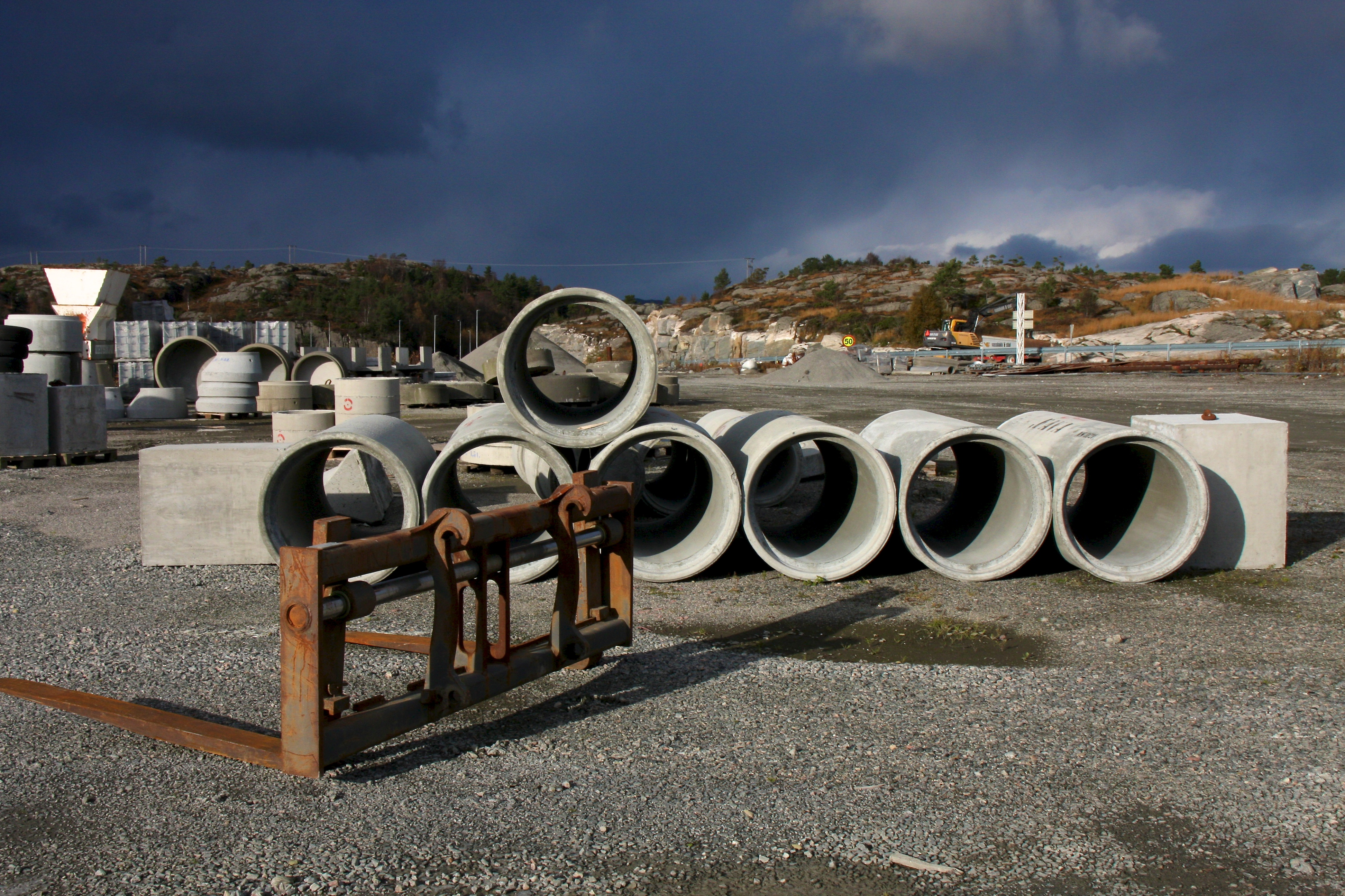 Gulen municipality, Norway.